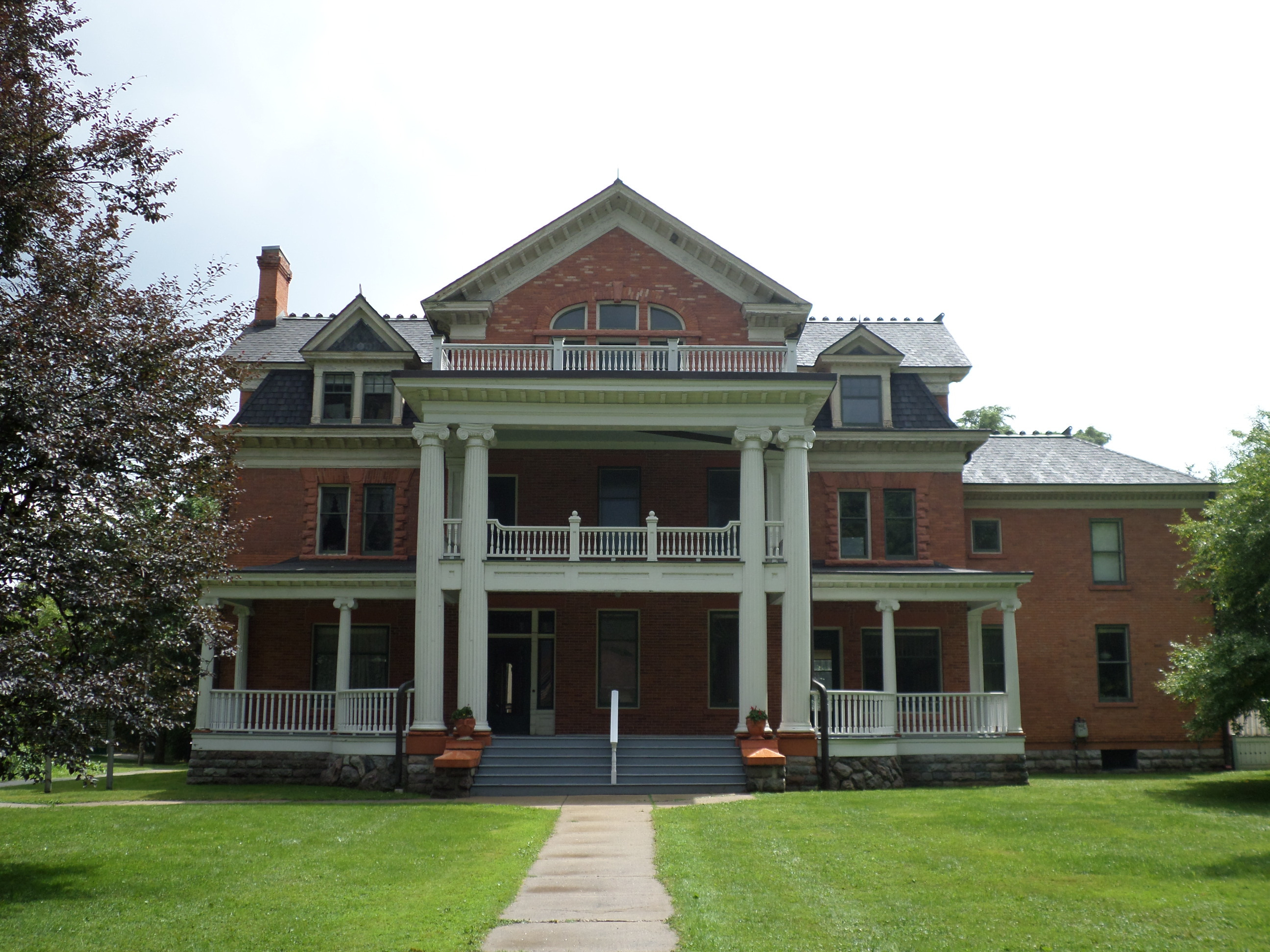 The Turner-Dodge House and Heritage Center located at 106 E. North St, Lansing, MI